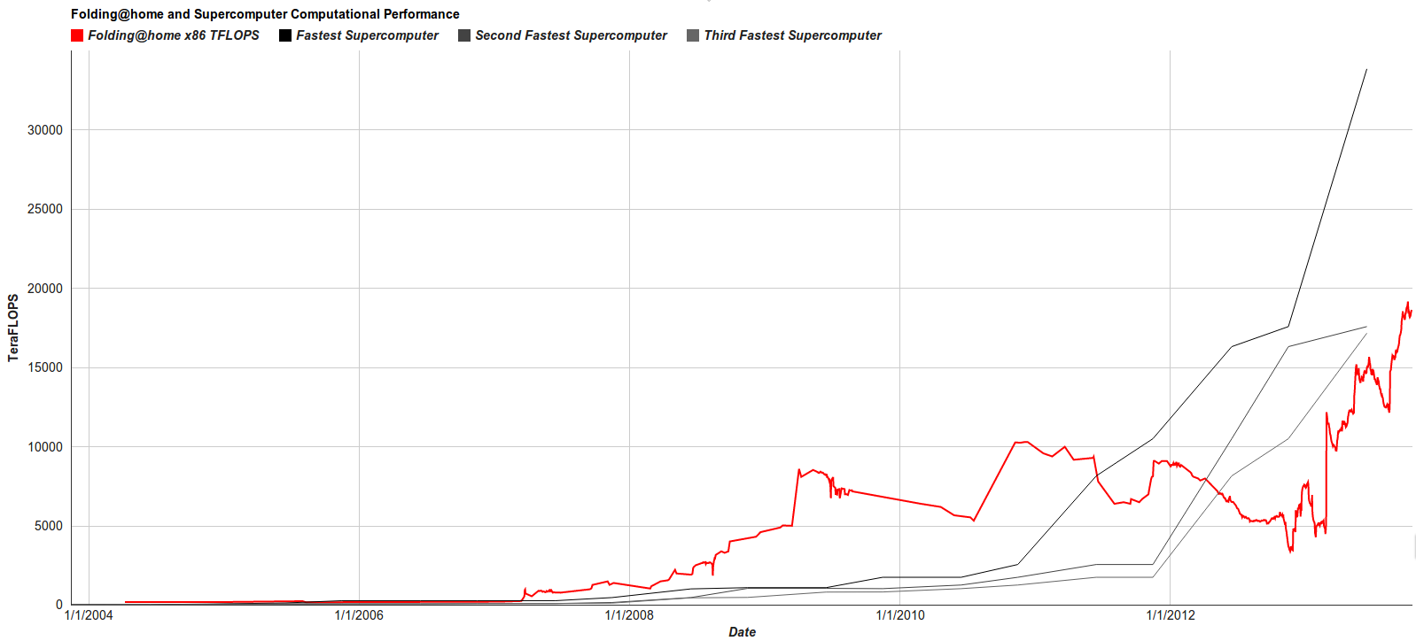 This is a graph of the Folding@home distributed computing project's computational performance between April 8, 2004 and October 15, 2013. The graph shows Folding@home's performance in x86 teraFLOPS and the rMax speed of the top three supercomputers from . Folding@home's performance is significantly above the most powerful supercomputer until April of 2011 when the K Computer overtook it. As the Folding@home website does not display a graph of the project's statistics over time, this graph was built from reliable historical data from around the Internet. Not all points could be found; this graph draws a smooth line between them. If you are interested in the sources for the data or if you'd like to see the graph updated, please contact User:Jesse V. on his Wikipedia talk page.